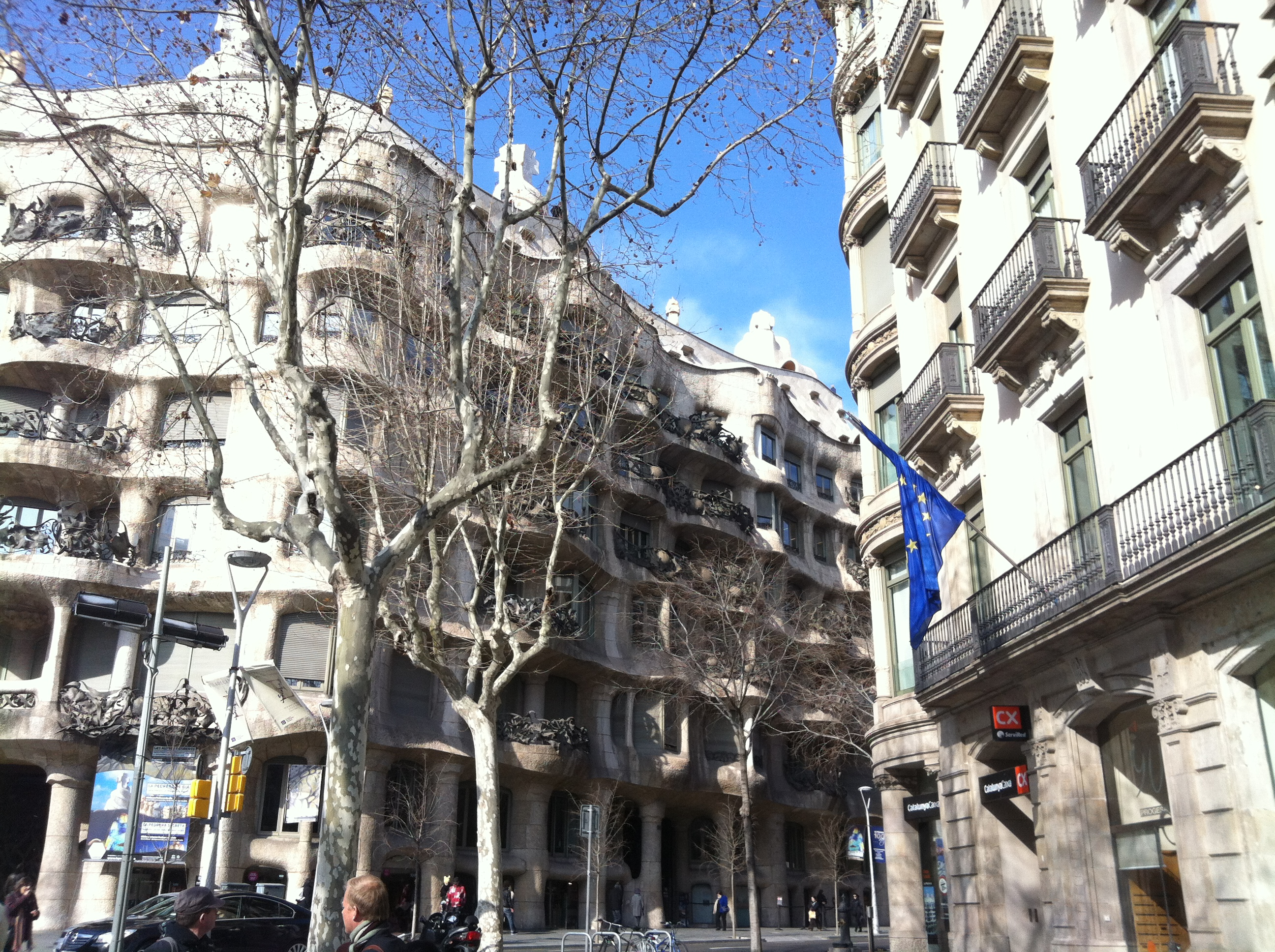 Barcelona delegation of the European Commission